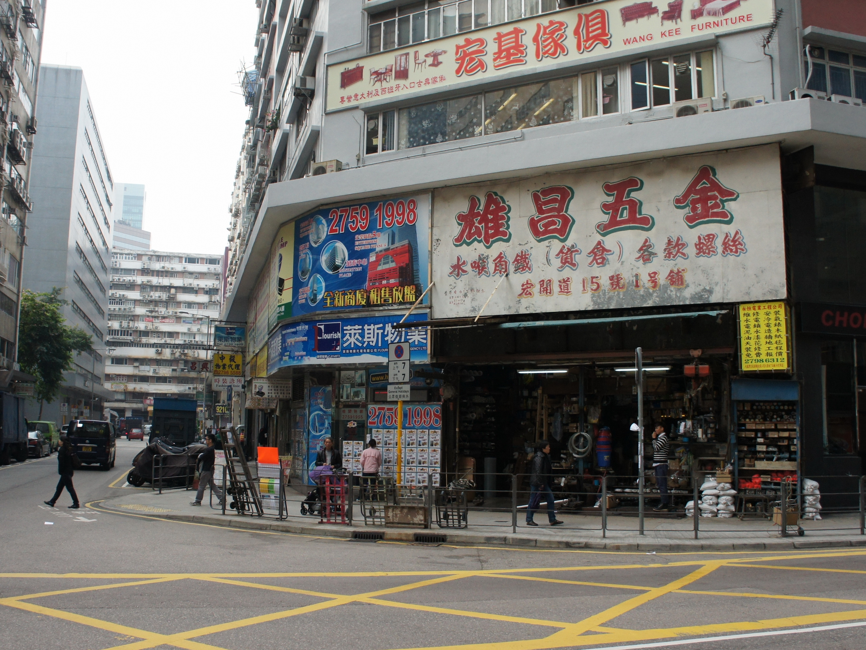 Kowloon Bay Industrial Centre, Intersection of Wang Hoi Road and Lam Fook Street, Kowloon Bay, Hong Kong.